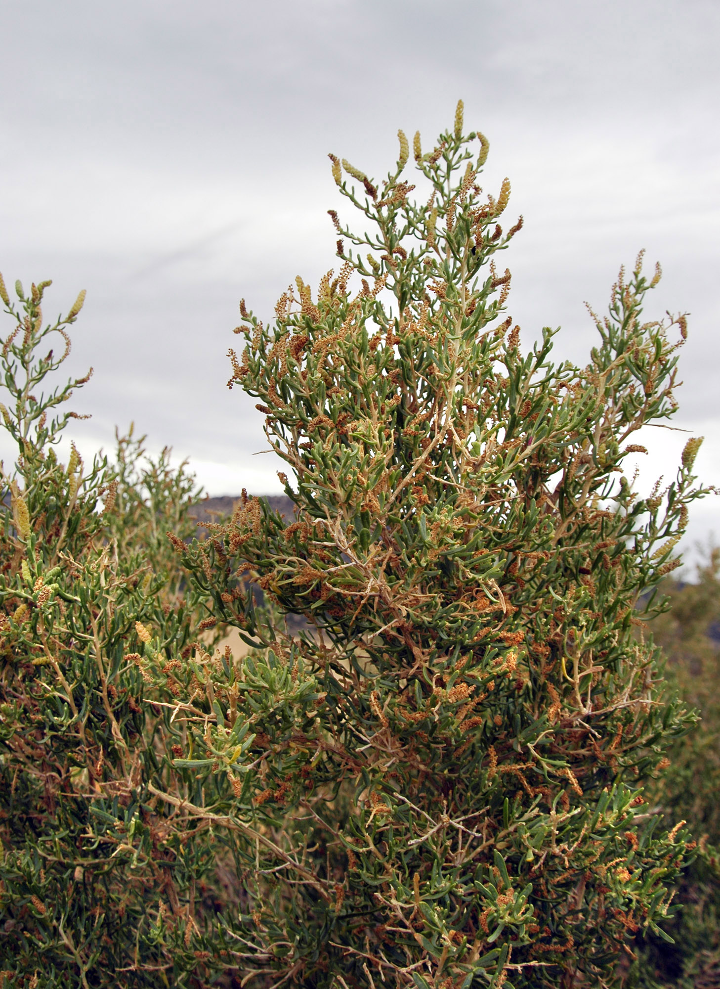 Close-up of Greasewood shrub (Sarcobatus vermiculatus ) in Sanpete Valley - Sanpete County, central Utah.